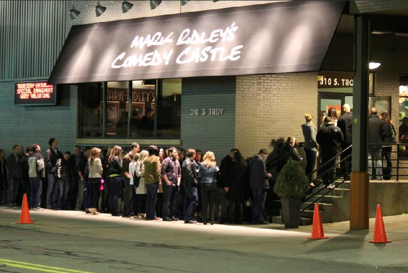 Mark Ridley's Comedy Castle line for Gary Valentine show.